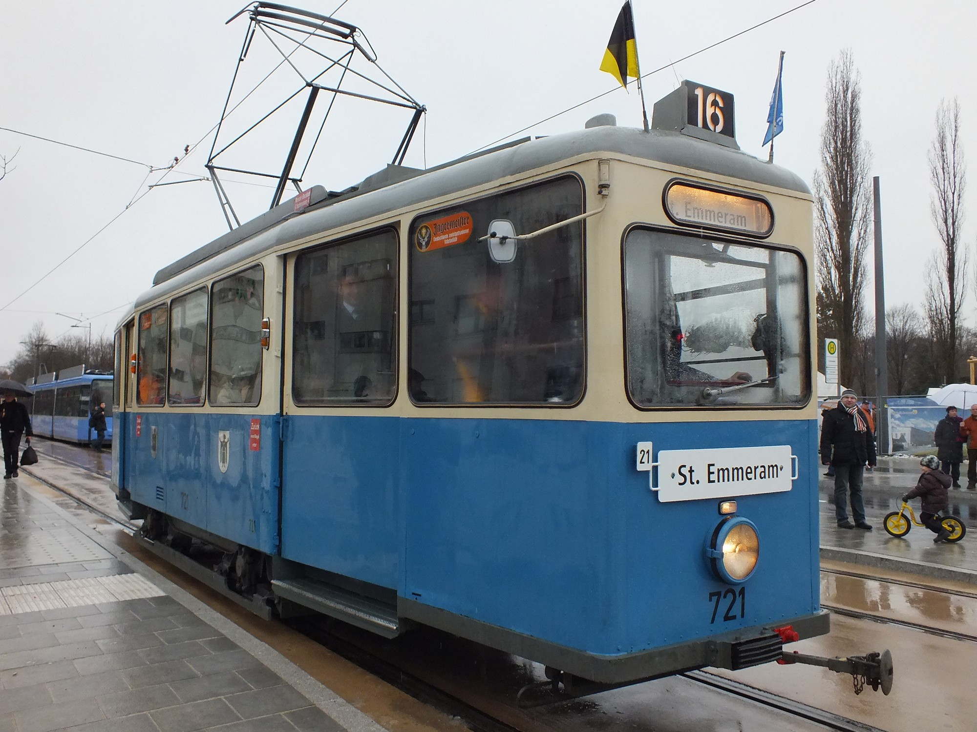 A Munich "Heidelberger" tram car (J stock) from the 1940s, kept as a museum tramcar